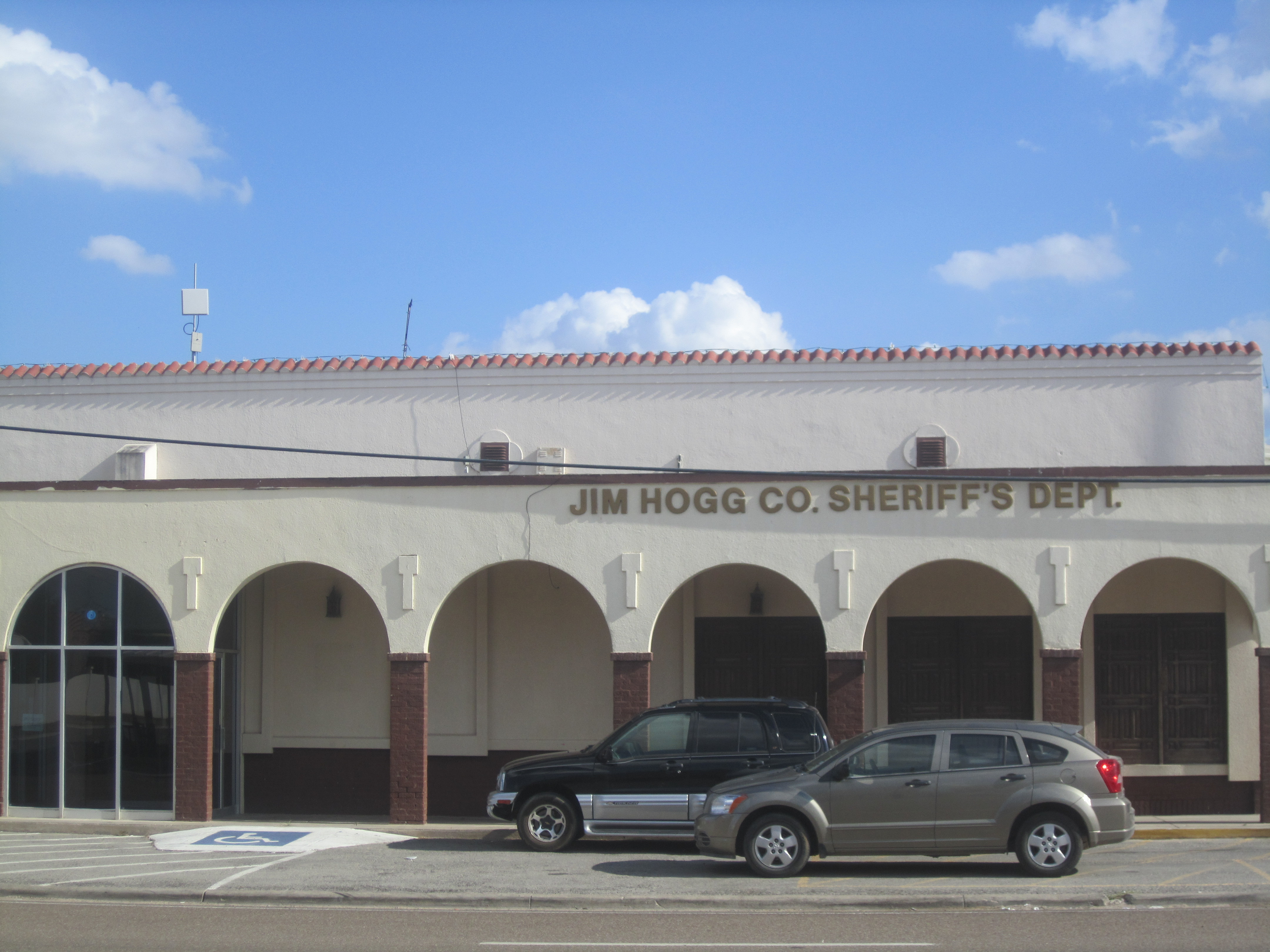 I took photo of Jim Hogg County Sheriff's Office in Hebbronville, TX, with Canon camera.